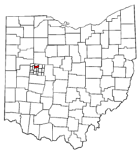 Adapted from Wikipedia's OH county maps. Created by SwissCelt.